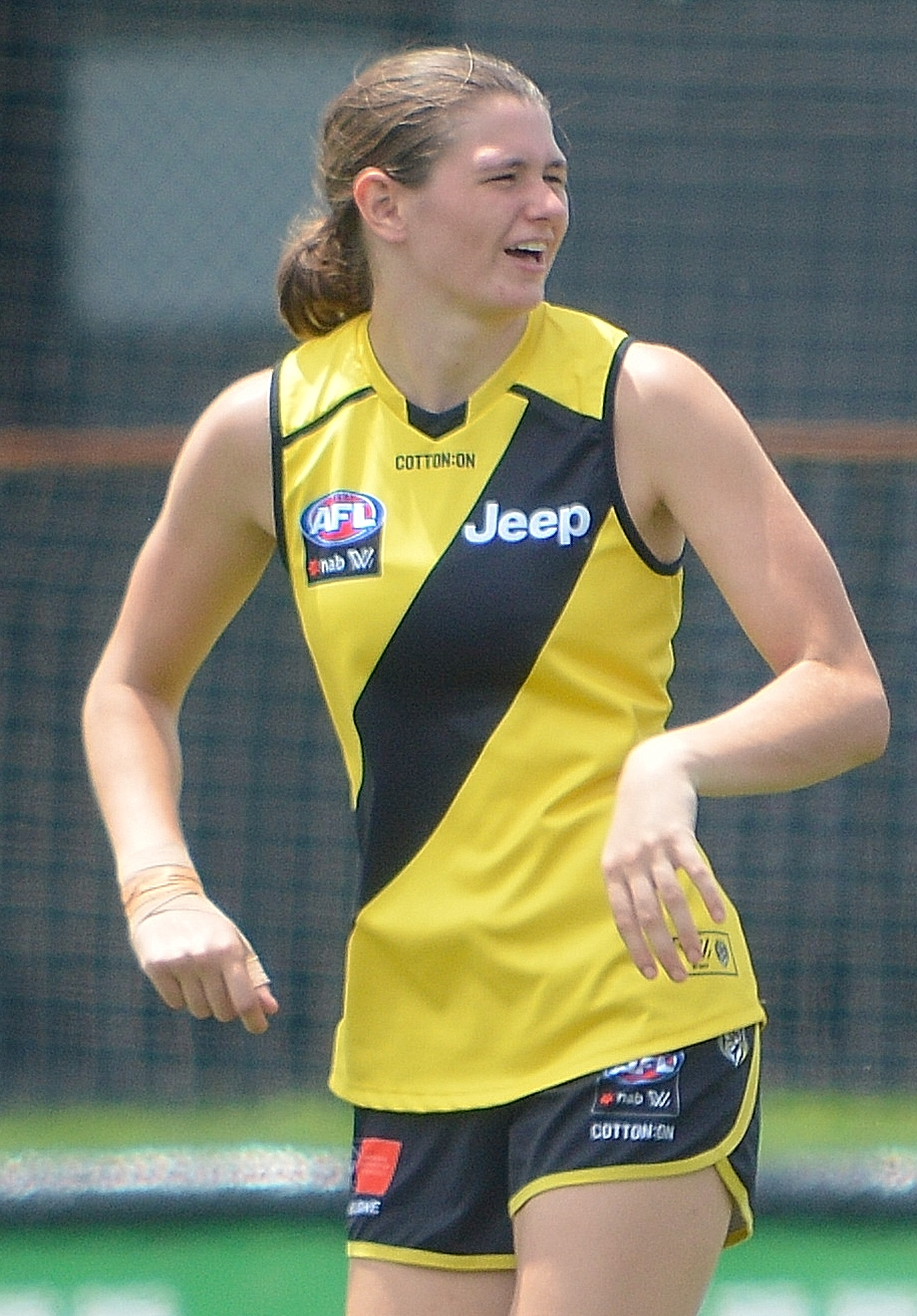 Ciara Fitzgerald with Richmond during a pre-season AFL Women's match against West Coast at Punt Road Oval in January 2020.